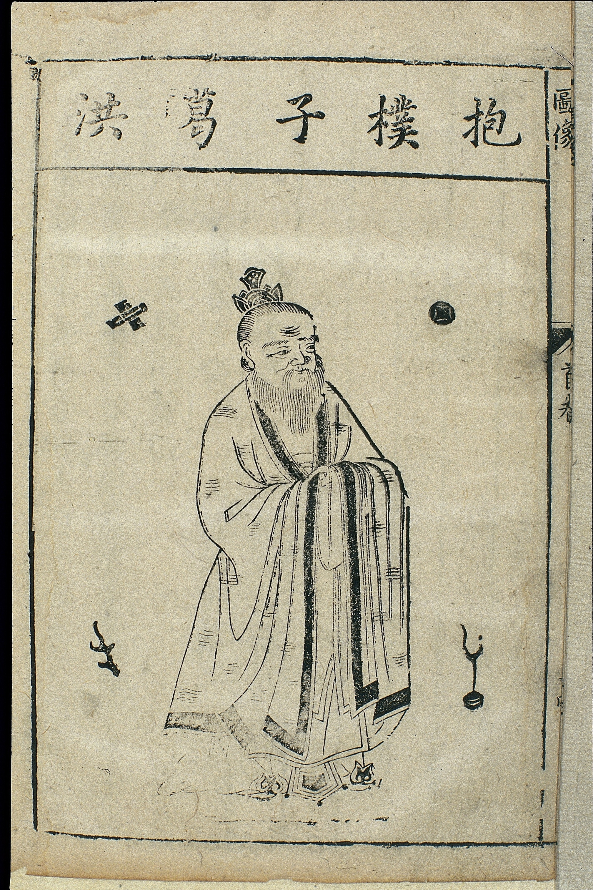 One of a series of woodcuts of illustrious physicians and legendary founders of Chinese medicine from an edition of Bencao mengquan (Introduction to the Pharmacopoeia), engraved in the Wanli reign period of the Ming dynasty (1573-1620) -- Volume preface, 'Lidai mingyi hua xingshi' (Portraits and names of famous doctors through history). The images are attributed to a Tang (618-907) creator, Gan Bozong. The account in 'Portraits and Names of Famous Doctors through History' states: Ge Hong, a native of Danyang, lived under the Eastern Jin dynasty (317-420). His style-name was Zhichuan, and he also called himself Bao Pu Zi (The one who embraces simplicity). He held the office of magistrate of Gaolou (present-day Beiliu in Guangxi province). He was expert at curing illnesses and well-versed in the classics. A Daoist adept, he knew how to make pills of immortality. He lived as a hermit in Luofu Mountain (a Daoist holy place), where he made pills of immortality and became an Immortal, after which he was known as Ge Xianweng (Ge the Immortal Sage). Ge Hong spent many years in retreat, wandering in the mountains, cultivating himself and writing. He is the author of Bao Pu Zi and Zhouhou jiuzu fang (Book of Remedies in Extremis to be Kept up one's Sleeve) in three volumes.Woodcut By: Gan Bozong (Tang period, 618-907)